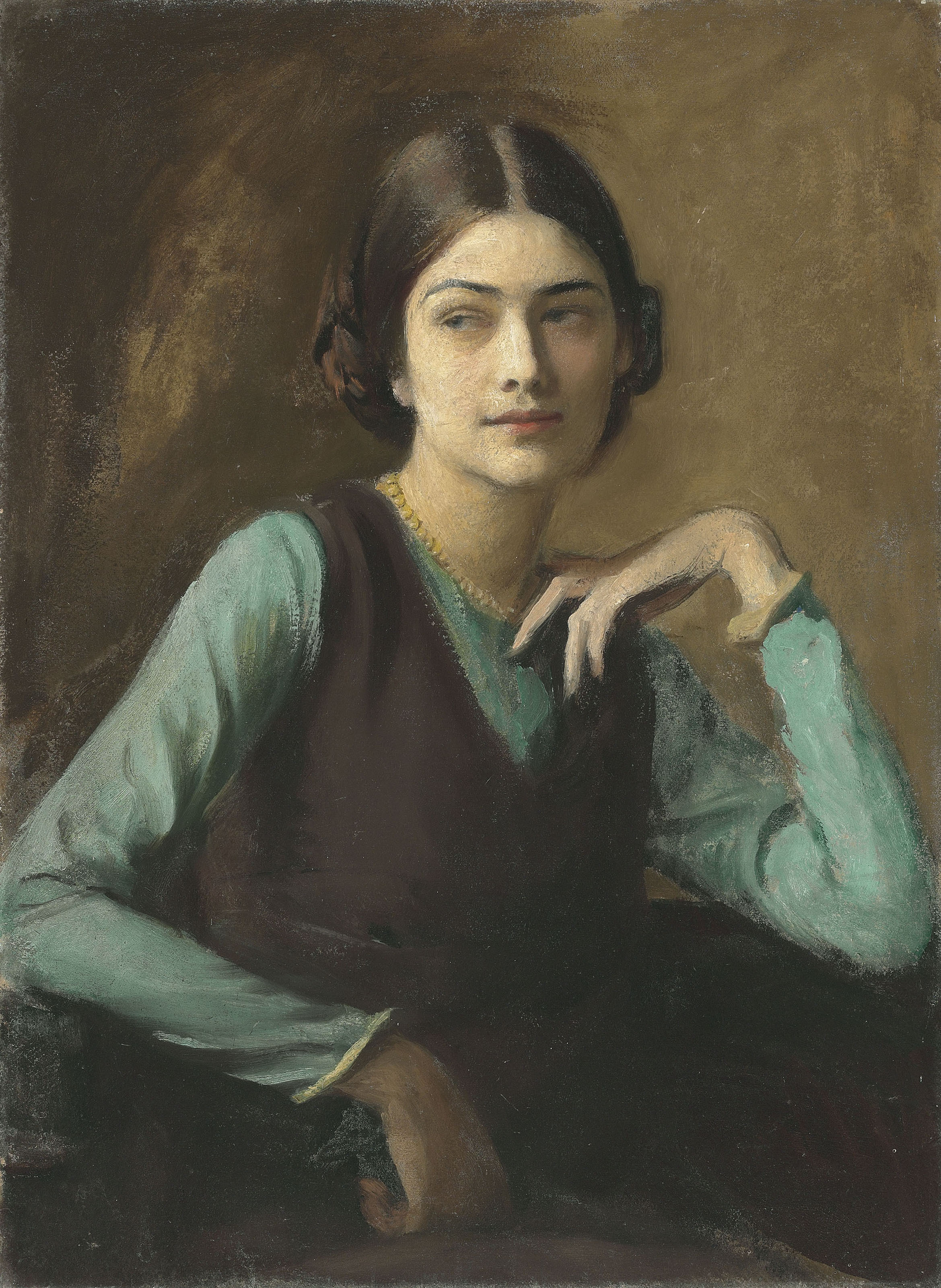 Clotilda von Derp (Frau Sakharoff) oil on canvas laid down on board 78.8 x 58.4 cm signed: Clotilda von Derp/[Frau Sakharoff.]/Dancer 1912/by George Spencer Watson R.A.